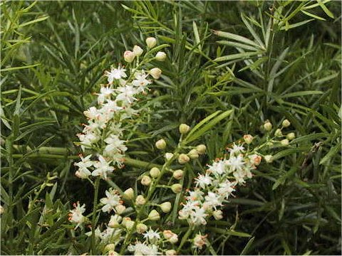 Asparagus aethiopicus 'Sprengeri'